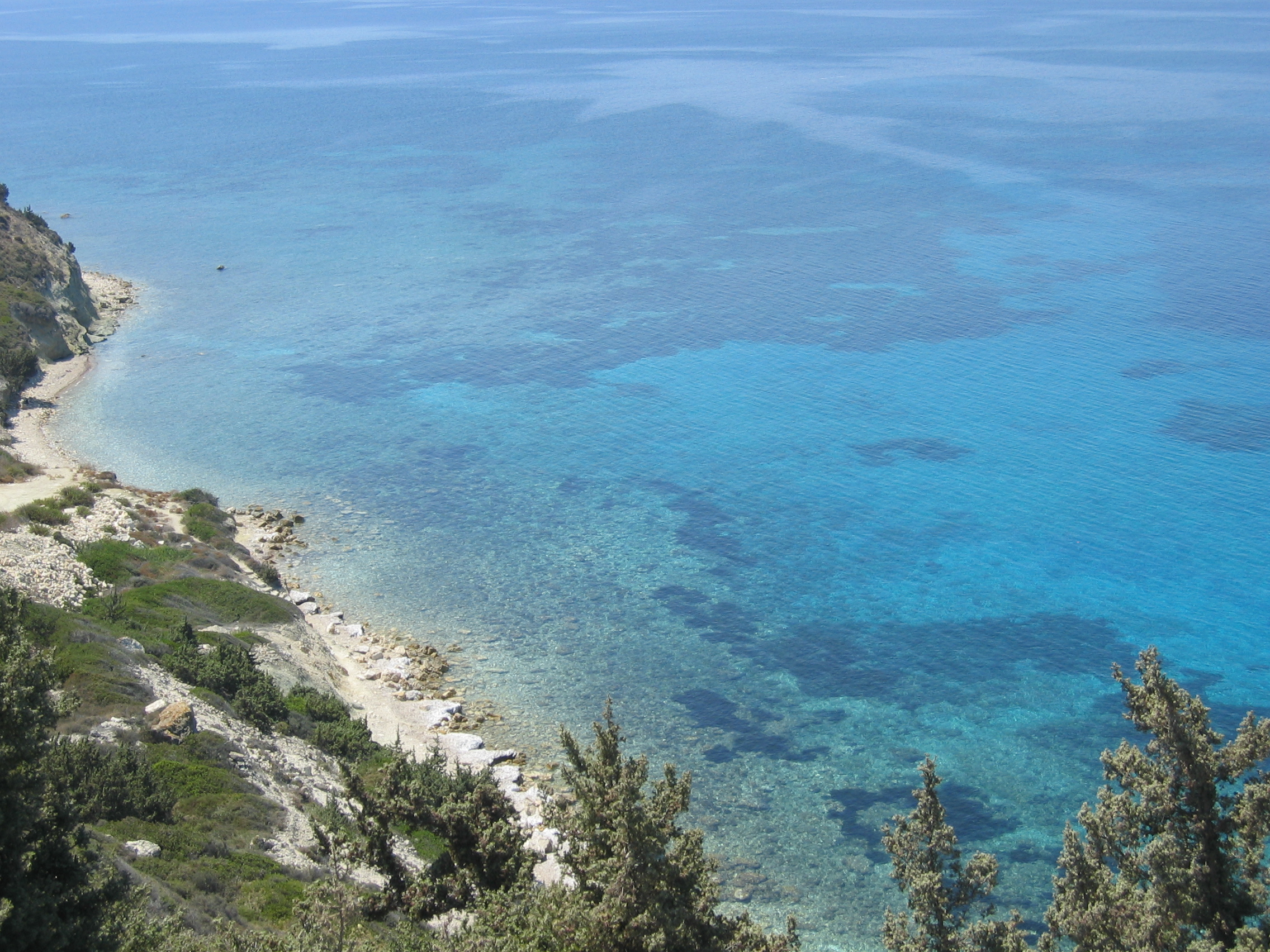 A photo from Çeşme, Turkey